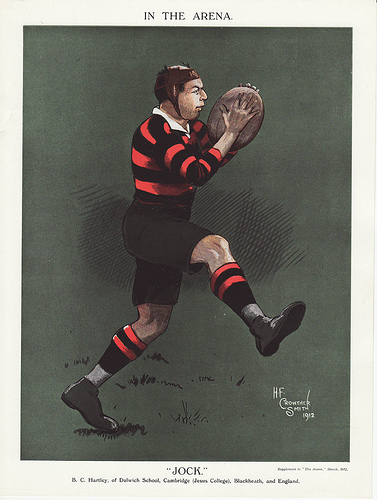 Cartoon of Bernard Charles "Jock" Hartley, England rugby union player, from Arena Magazine in 1912